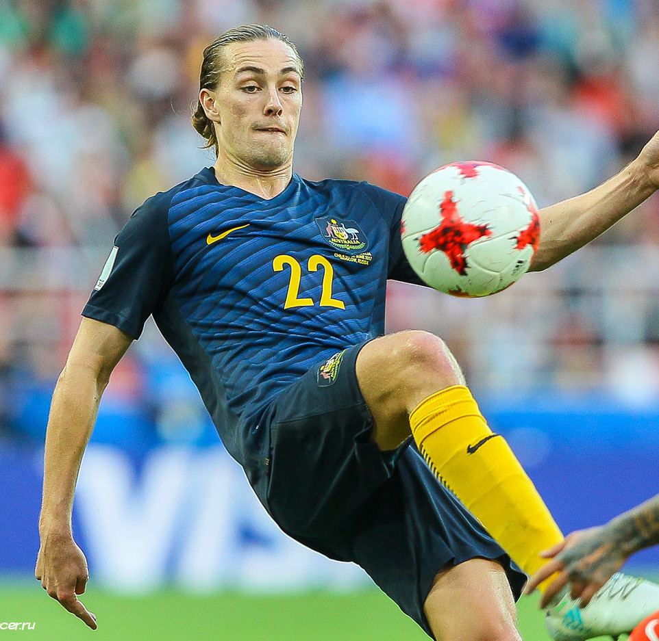 Chile VS. Australia 1 - 1, 25 June 2017